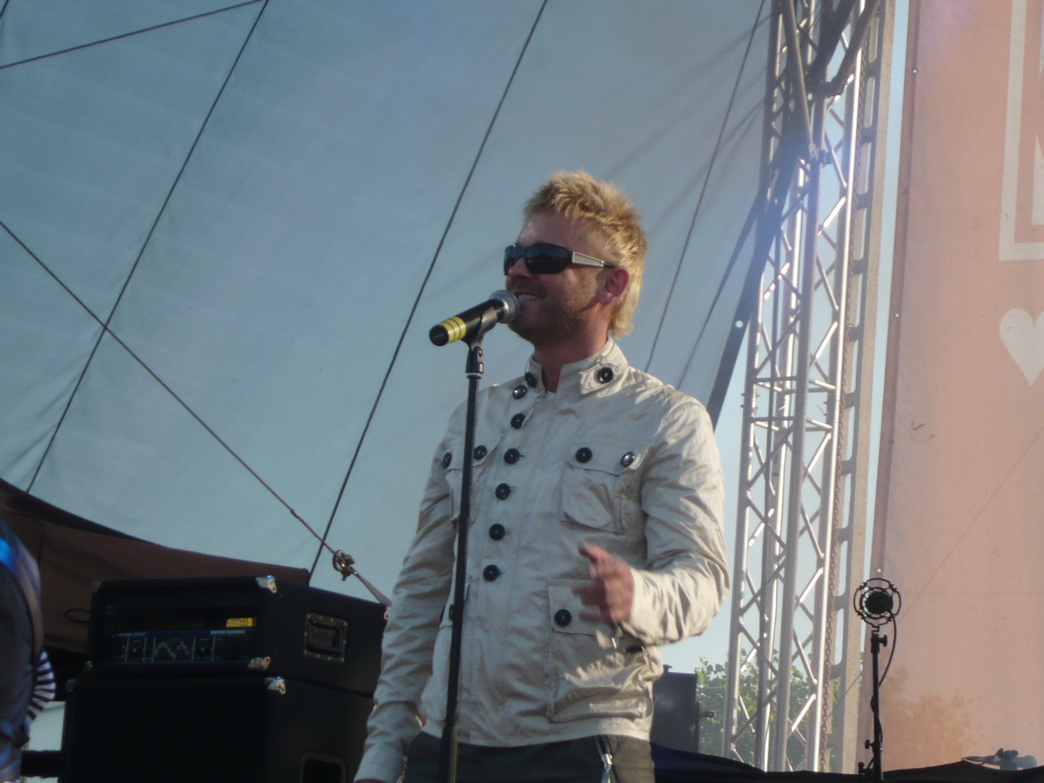 "Papa D" (Paweł Stasiak), Krynica, lato.